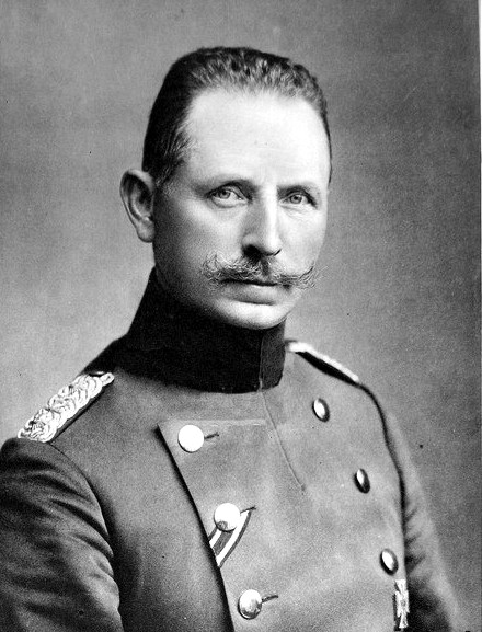 Photo of Generalmajor Paulus von Stolzmann